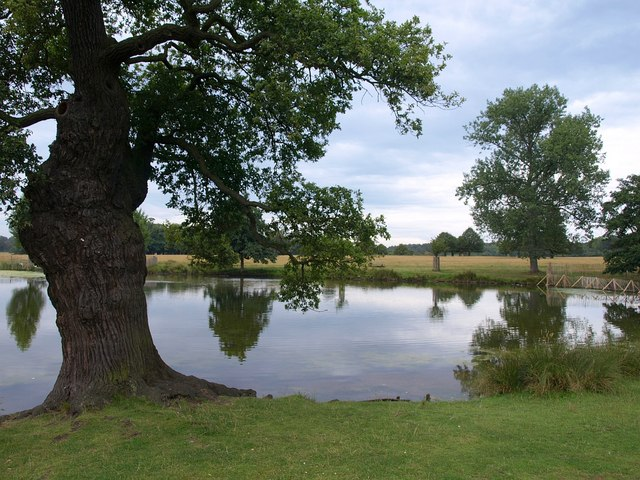 Adam's Pond, Richmond Park The pond, which is close to East Sheen Gate, "was this year given a major renovation, being de-silted and with areas of marginal planting added"